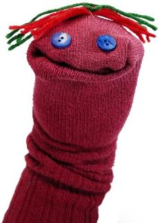 A photograph of a sock puppet made by me.